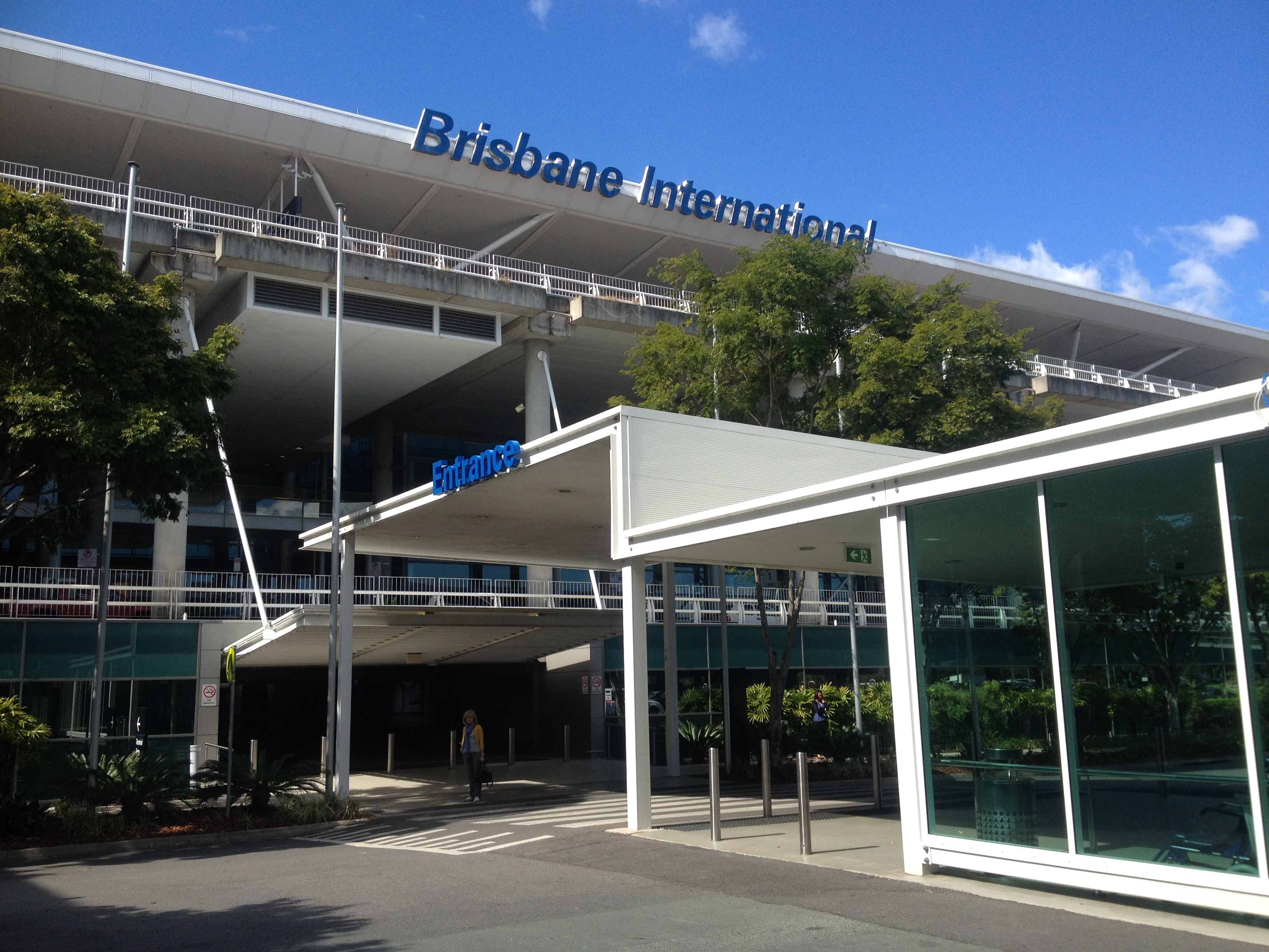 Ground floor entrance to the Brisbane International Terminal